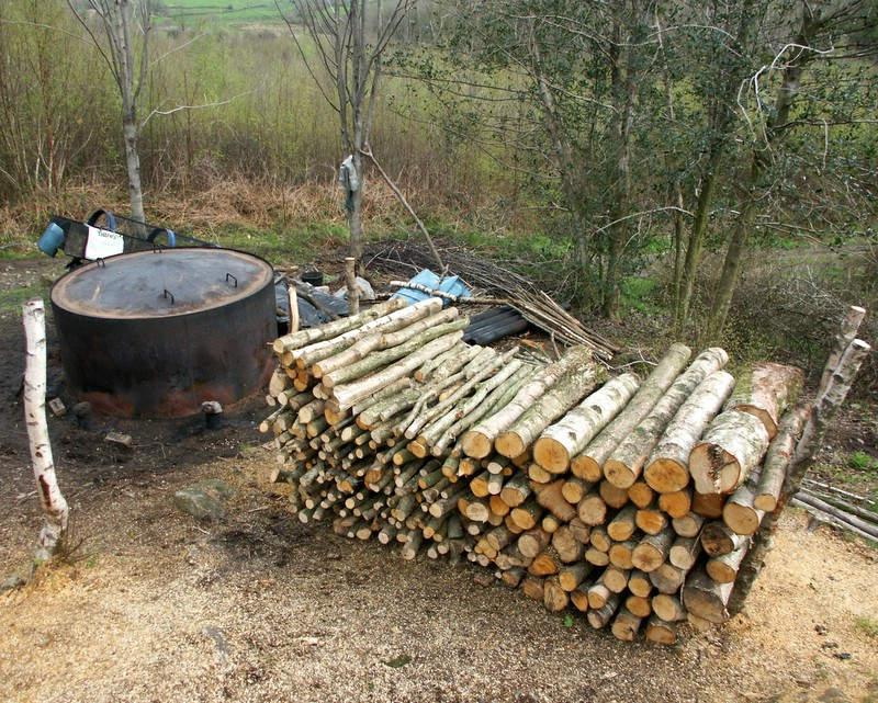 Charcoal burner from Cumbria, UK